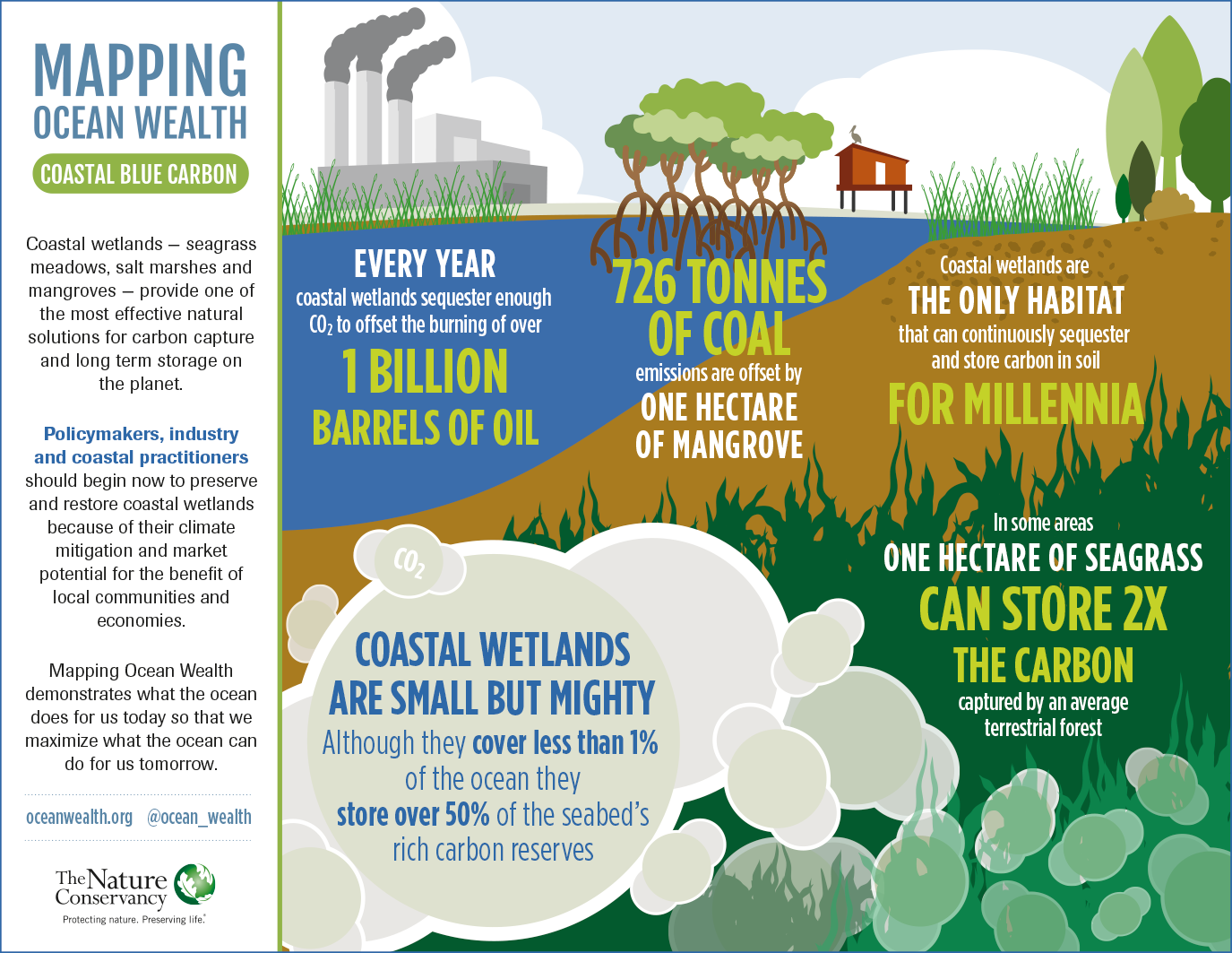 Mapping ocean wealth summarizes the benefits of wetland ecosystems, with regards to carbon storage.